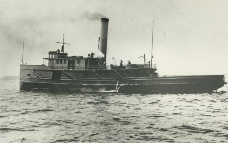 The tugboat Balize circa 1900